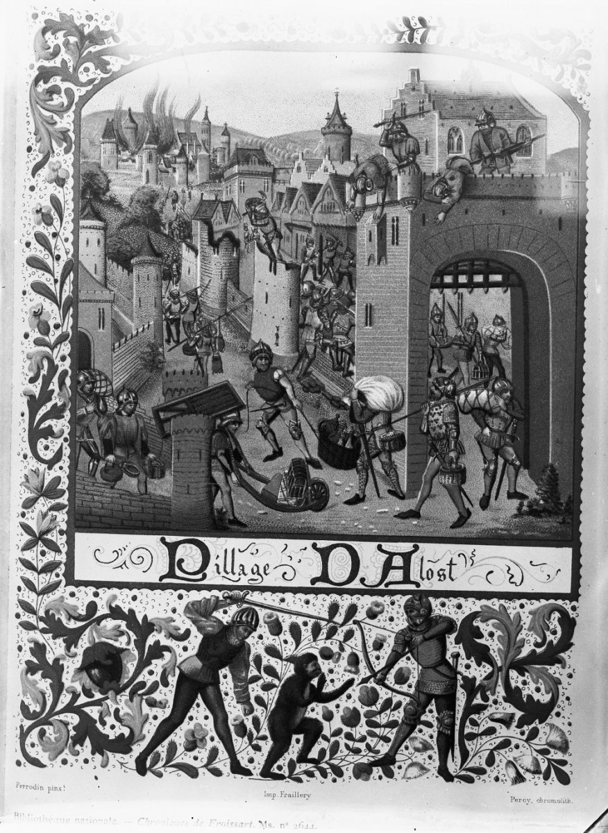 The French take the town of Alost, and proceed to pillage it, carrying away their loot by the barrow-load Date, c. 1381